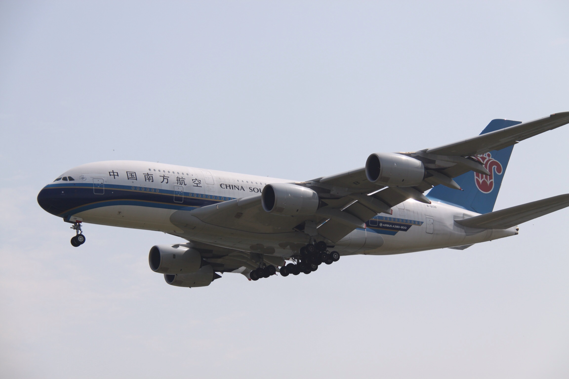 At Beijing Capital